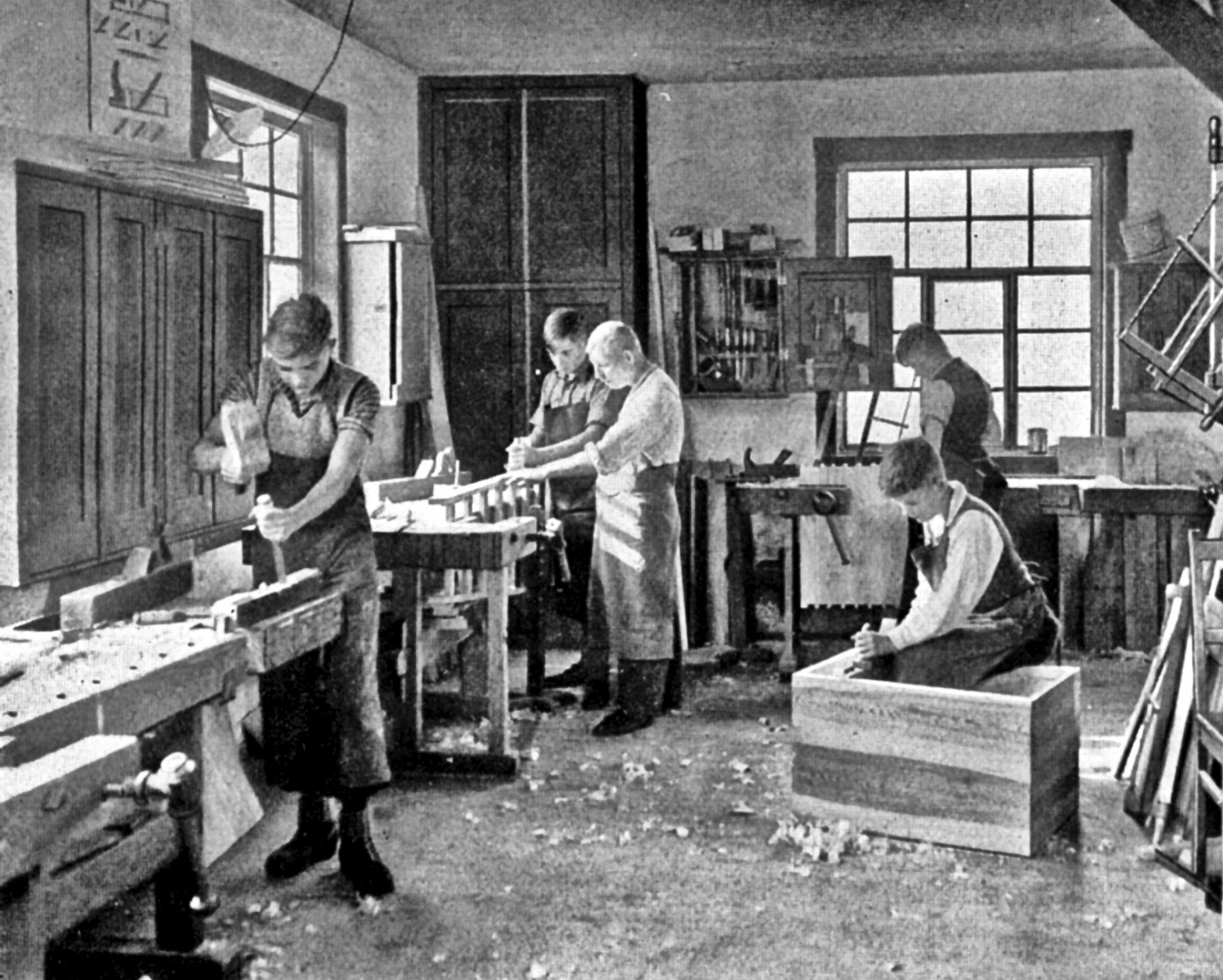 Carpentry of Freie Schulgemeinde (= Free School Community) in Wickersdorf near Saalfeld in the Thuringian Forest